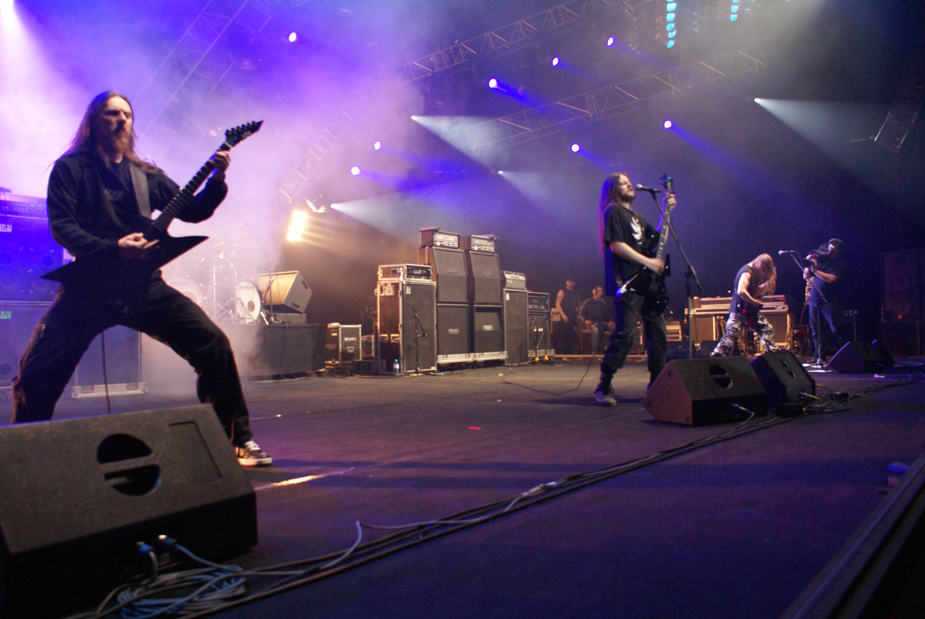 Metal band Zyklon during Metalmania 2007 festival